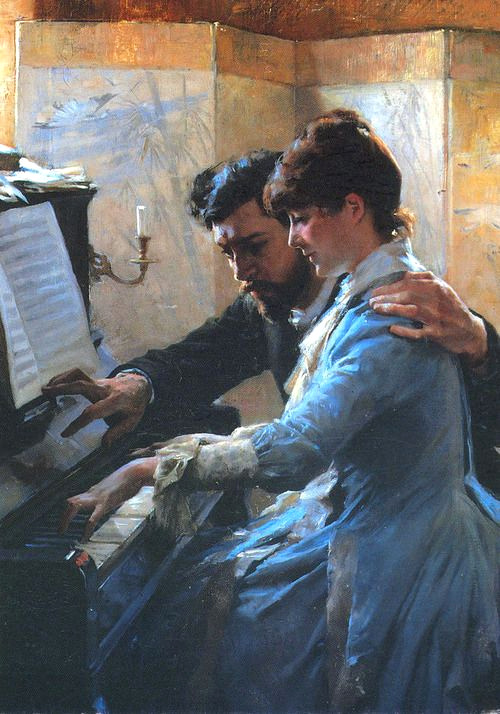 Playing the Piano by Albert Edelfelt